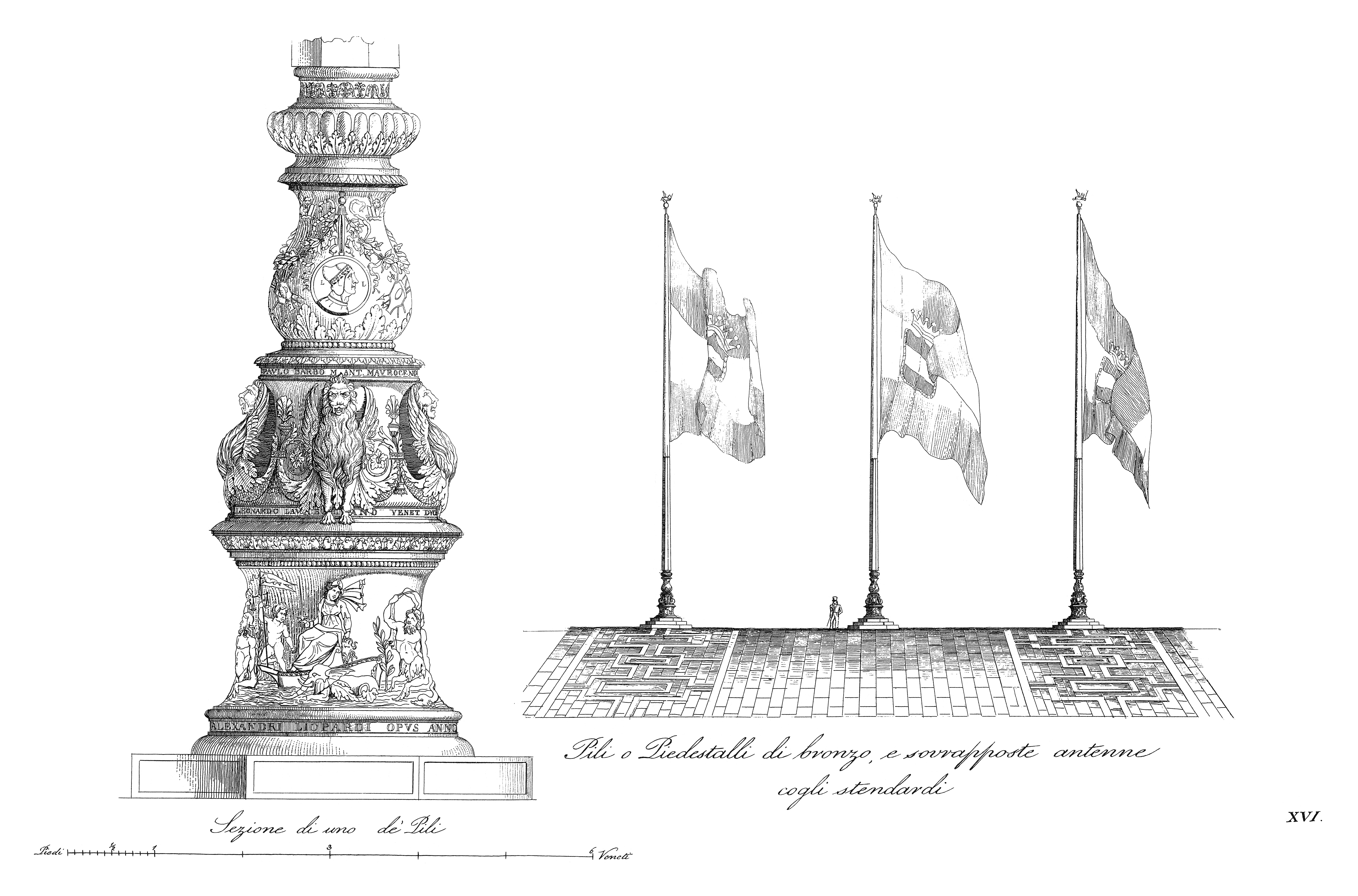 This image shows plate XVI, entitled Pili o Piedestalli di bronzo, e souvrapposte antenne cogli stendardi. The three delicate bronze flagpoles or pylones at the east end of the Piazza San Marco, facing the main façade of St Mark’s Basilica and created in 1505 by Alessandro (de’) Leopardi (1465–1523). The detail at the left shows the the central flagpole/pylone.